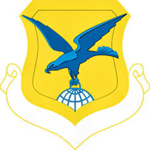 Emblem of the 436th Airlift Wing (used by 436th Operations Group with the group designation on the scroll